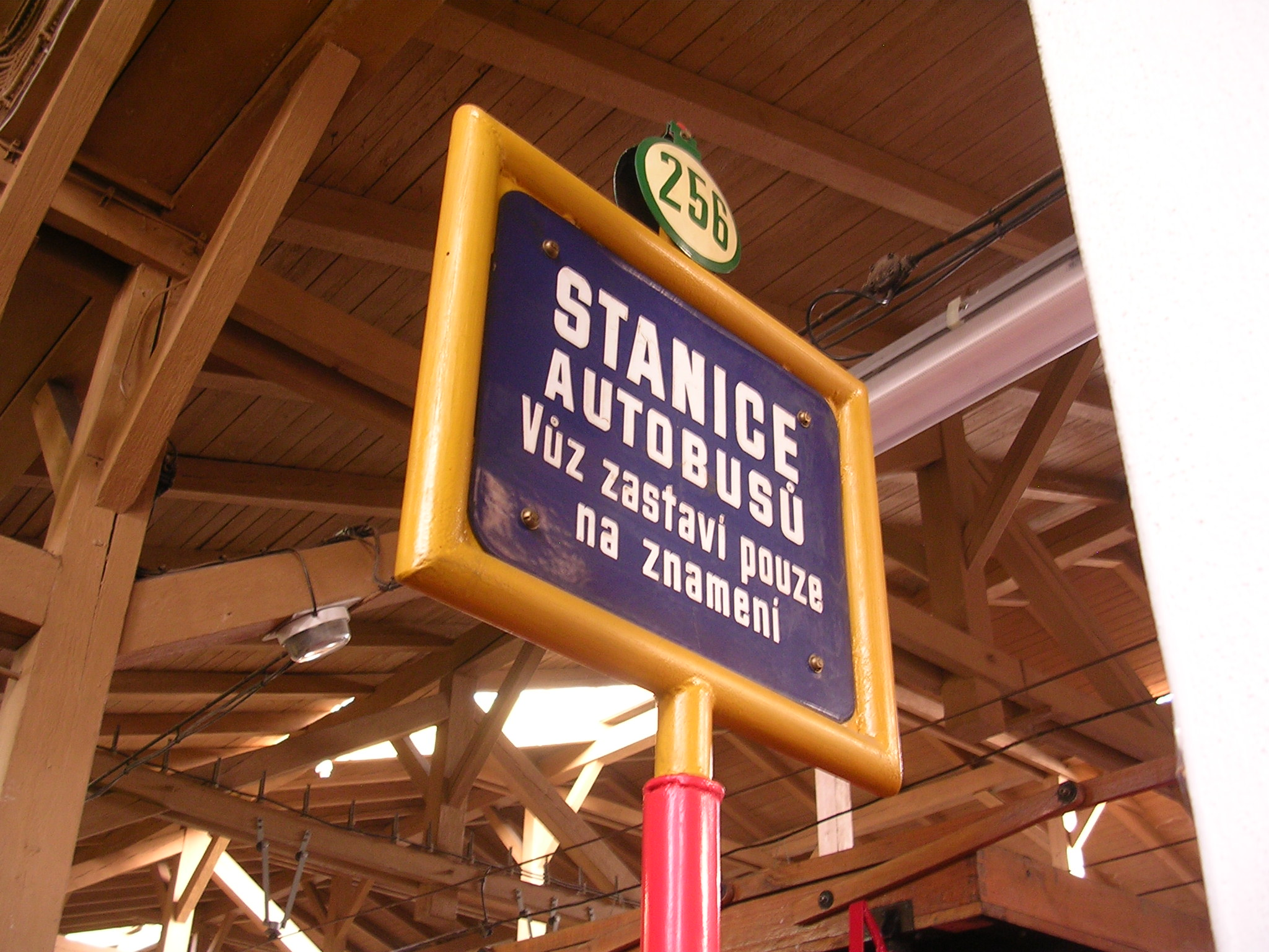 Střešovice, Prague, the Czech Republic. Historical bus stop sign.